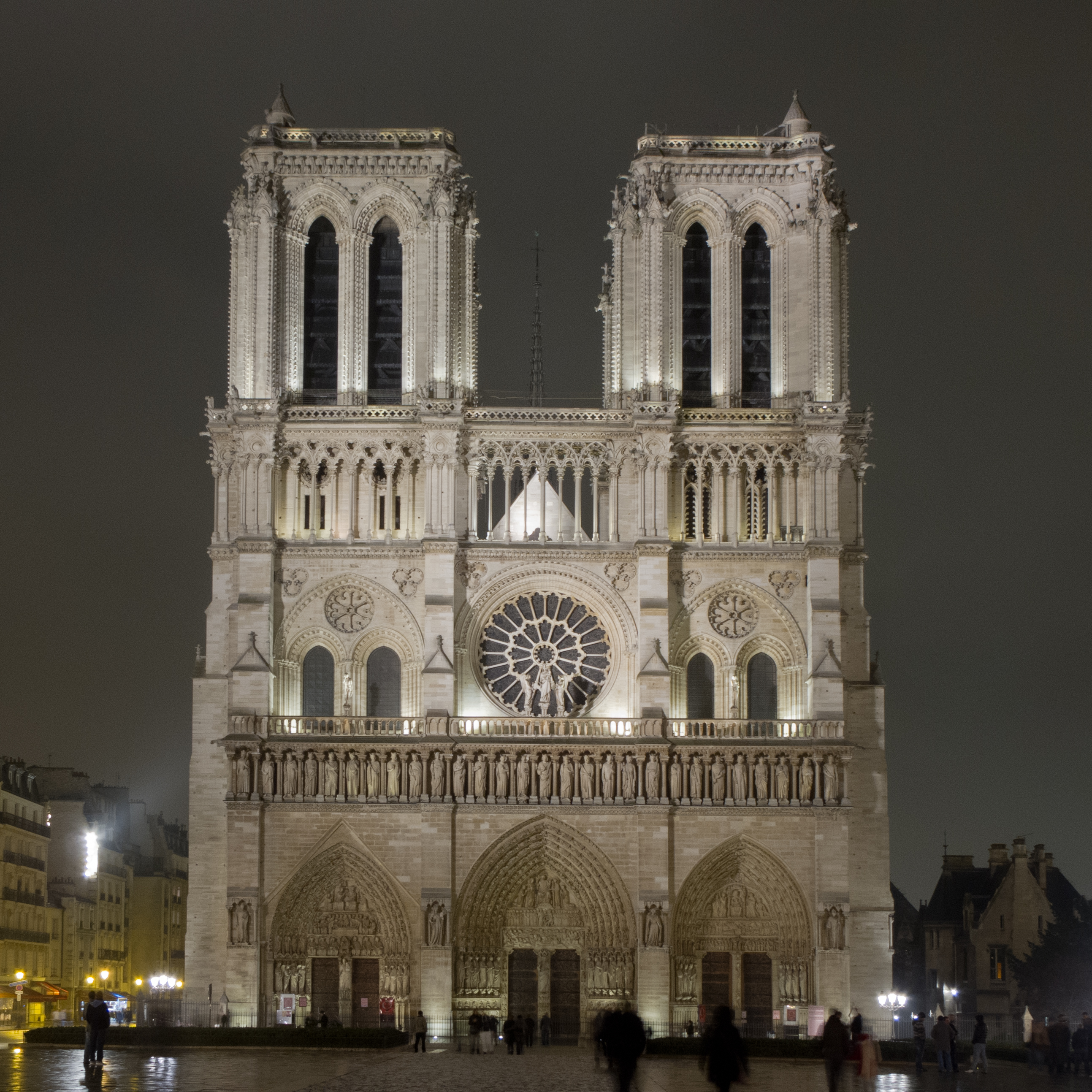 Night view of the west facade of the Cathedral of Notre-Dame of Paris, France.